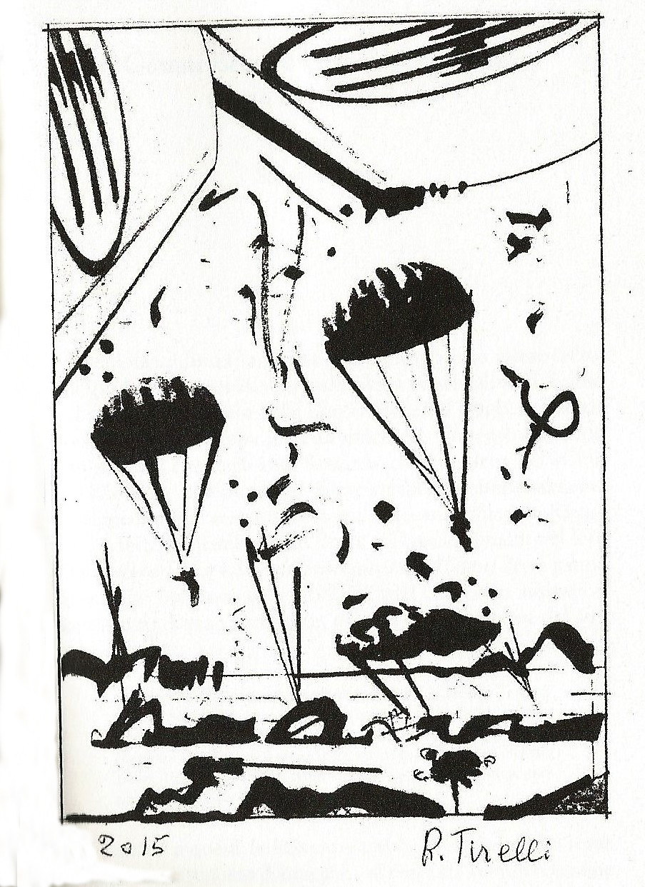 "Brera...col cuore nella folgore"_ Roberto Tirelli